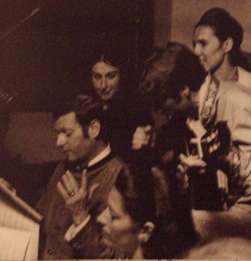 Austrian composer Gerhard Lampersberg and composer Renate Spitzner (middle) at "Tonhof" (Austria)